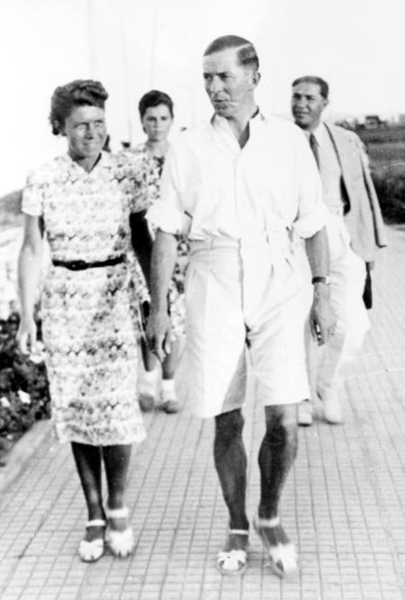 Maria Terwiel and her fiancé Helmut Himpel, opponents of the Third Reich, executed.